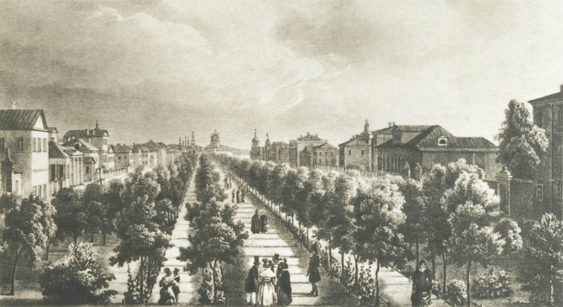 Moscow, Tverskoy Boulevard